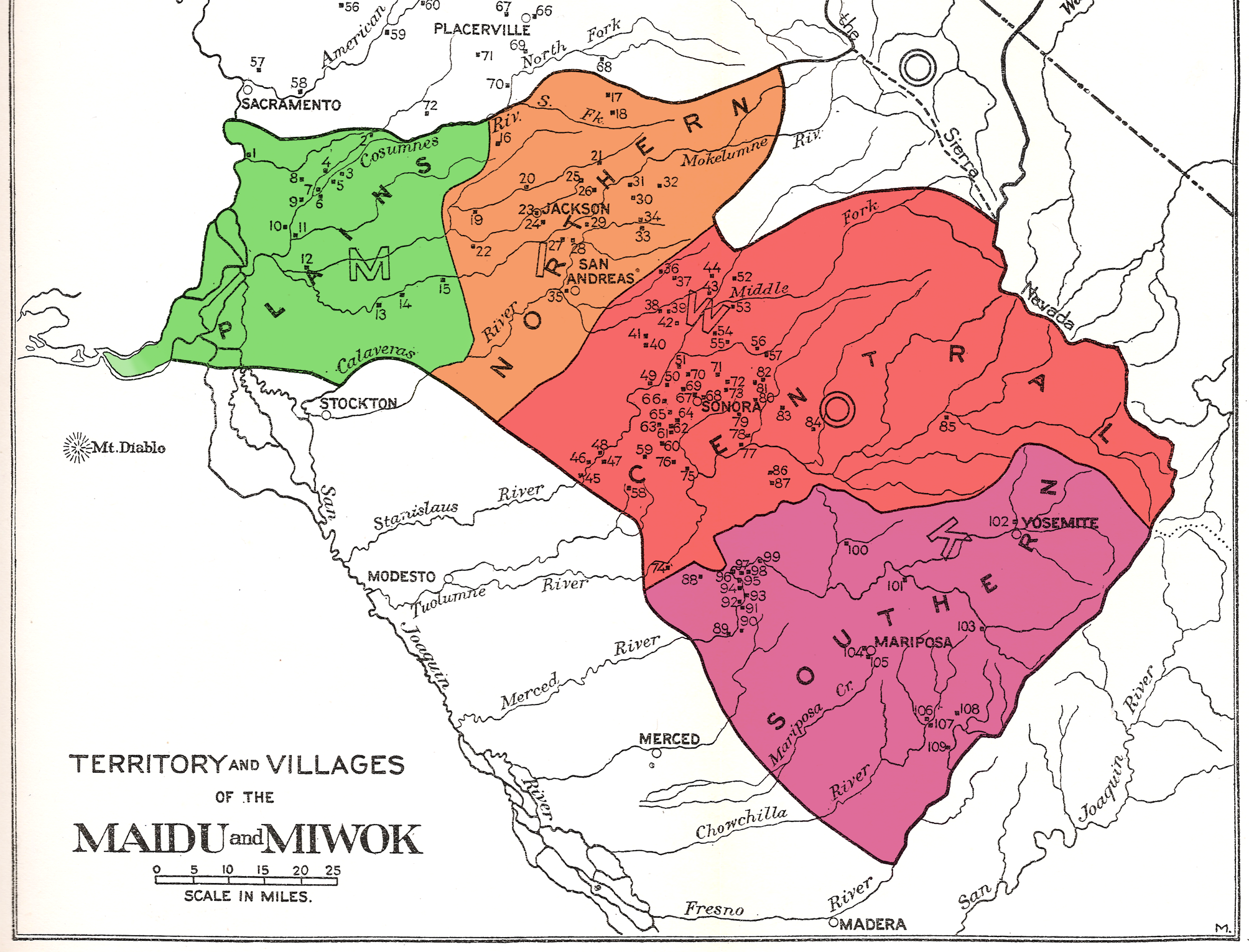 Map of the Plains and Sierra Miwok territories, an excerpt from the map titled "Territory and Villages of the Maidu and Miwok", taken from the Handbook of the Indians of California by Alfred L. Kroeber, published by the Bureau of American Ethnology in 1925. Edited: territories of Plains Miwok (green), Northern Sierra Miwok (orange), Central Sierra Miwok (red), and Southern Sierra Miwok (purple) indicated by color.